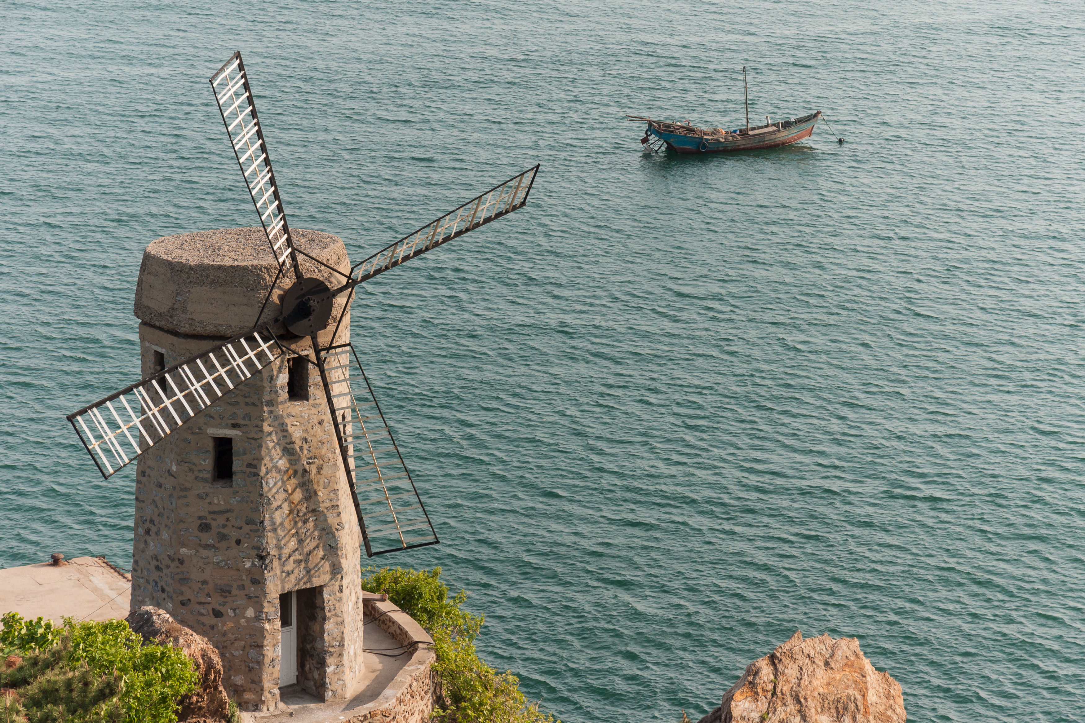 Dalian, Liaoning, China: Windmill at Xinghai Bay